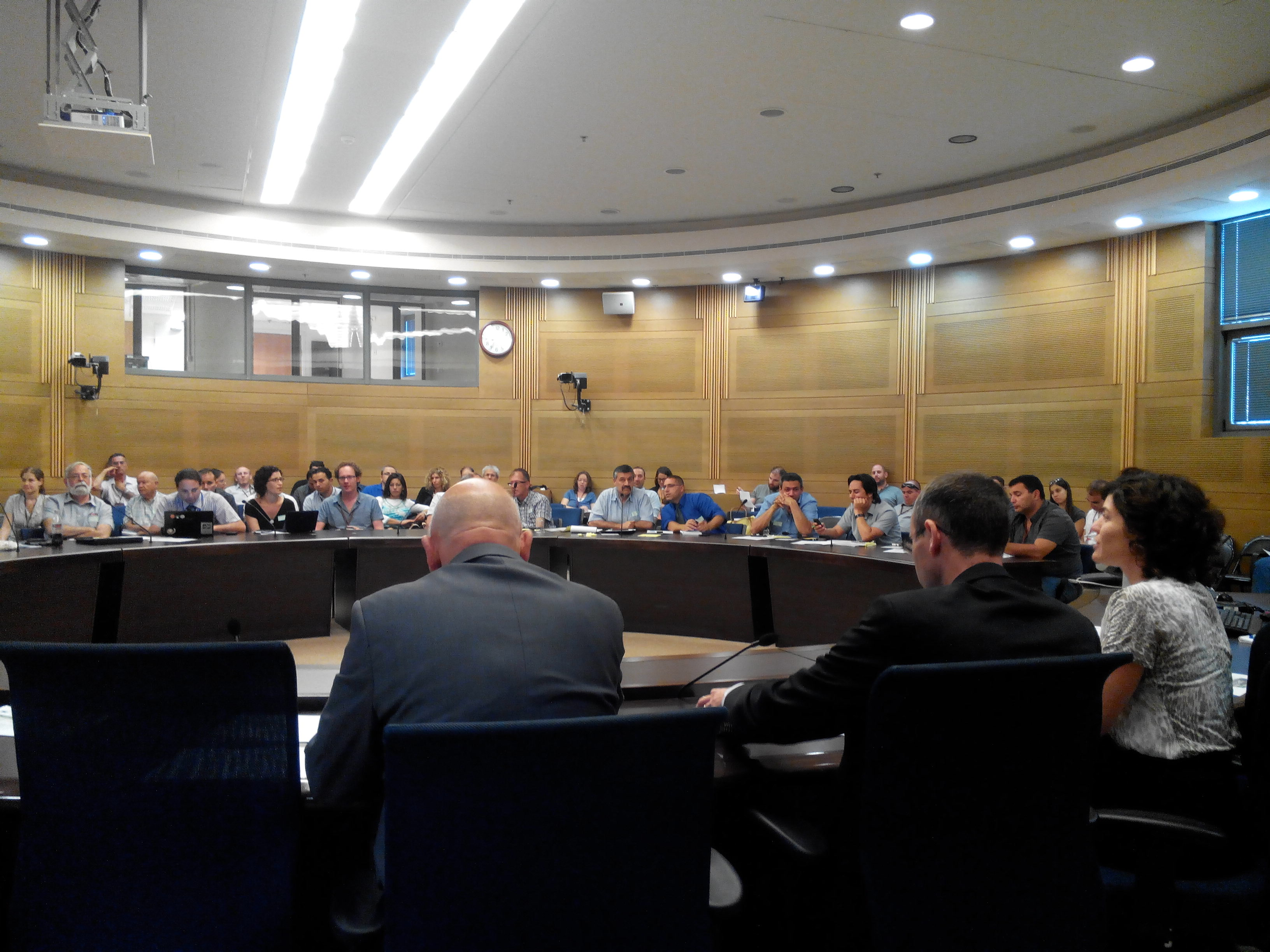 The 2nd Meeting of the Public Transportation Lobby in the Knesset, headed by MK Tamar Zandberg & Yariv Levin